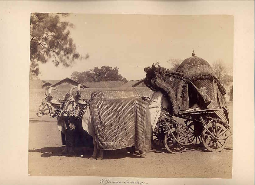 "A Zenana Carriage," an albumen photo c. 1880s Source: ebay, Sept. 2004